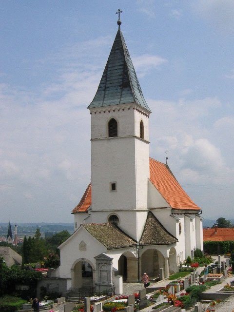 Church Saint Anna (Sveta Ana) in Slovenia at the Slovenske Konjice cemetary